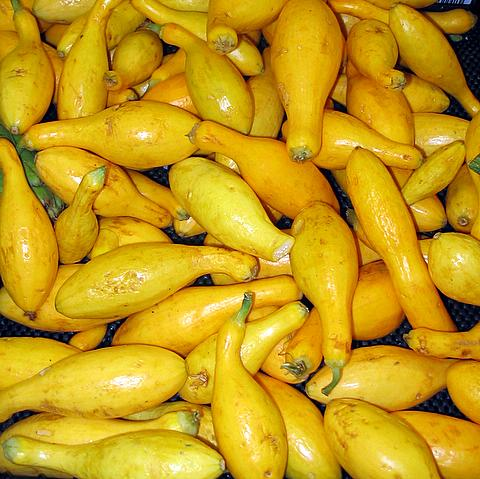 Yellow crookneck squash at Kroger.